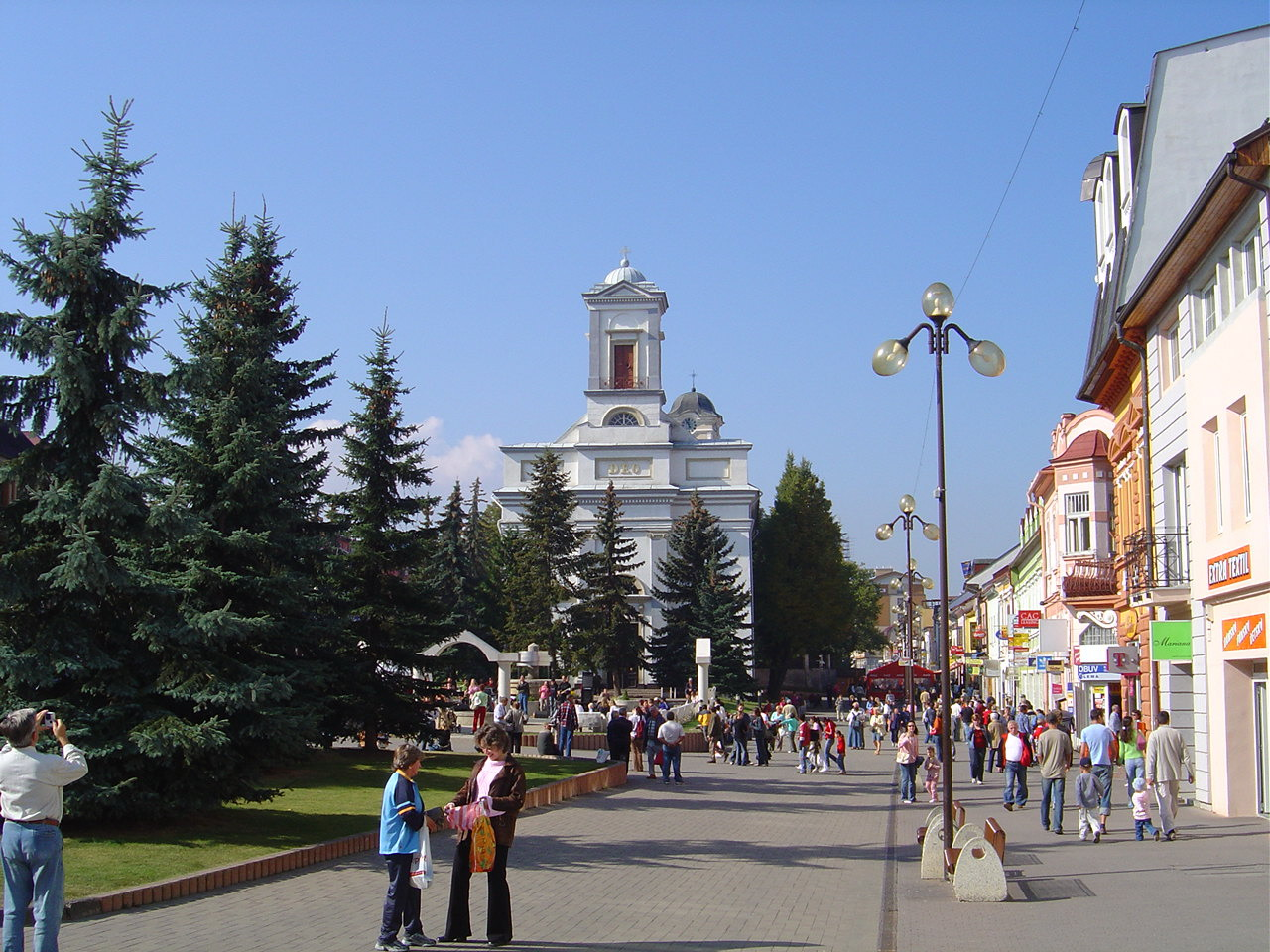 Saint Egidius square in Poprad This medium shows the protected monument with the number 706-841/0 in the Slovak Republic.